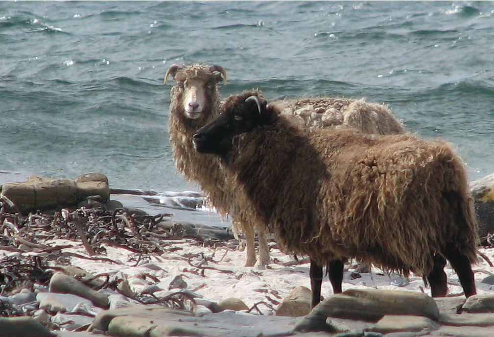 North Ronaldsay sheep on North Ronaldsay beach